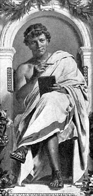 Publius Ovidius Naso, "Ovid" Publius Ovidius Naso Nach einem Gemälde von A. v. Werner